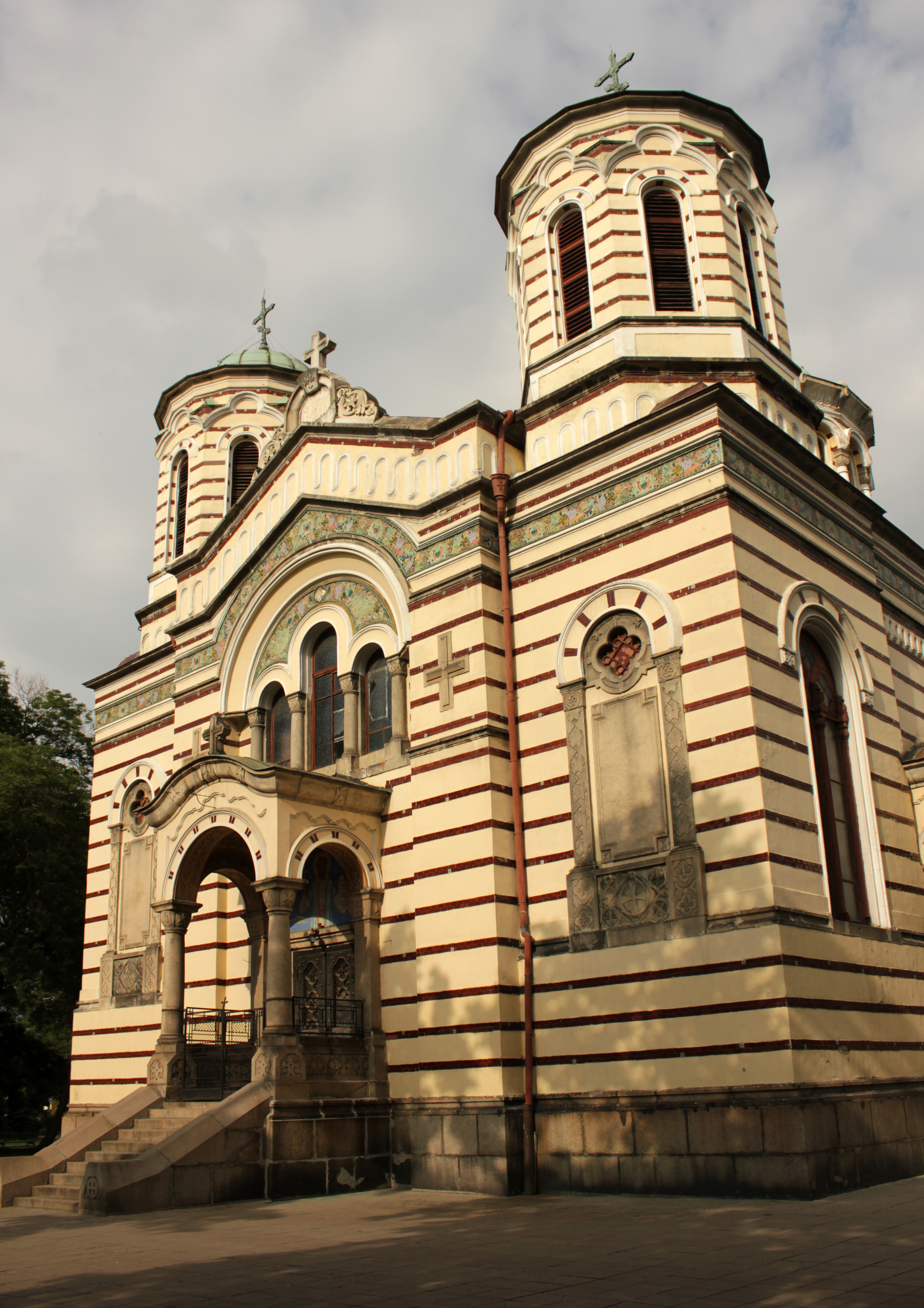 Saint Nikolay of Sofia church in Sofia, Bulgaria